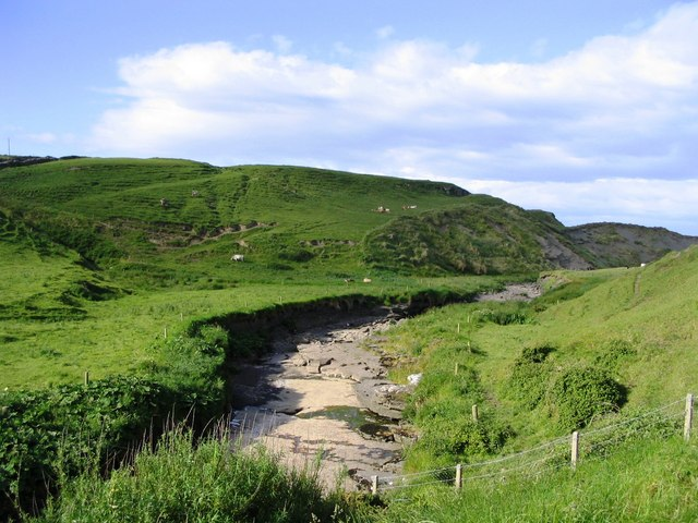 Mouth of Aille River, Doolin The water almost disappears before reaching the sea, near the hill in the back